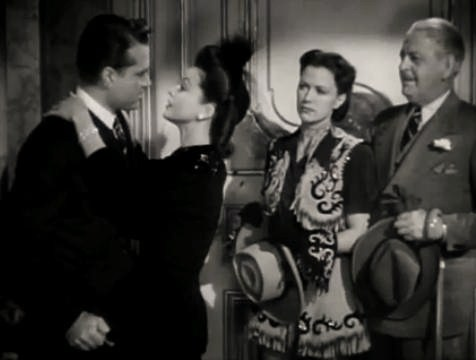 L. to R. : Red Skelton, Patricia Dane, Eleanor Powell & Thurston Hall in I Dood It - trailer (cropped screenshot)